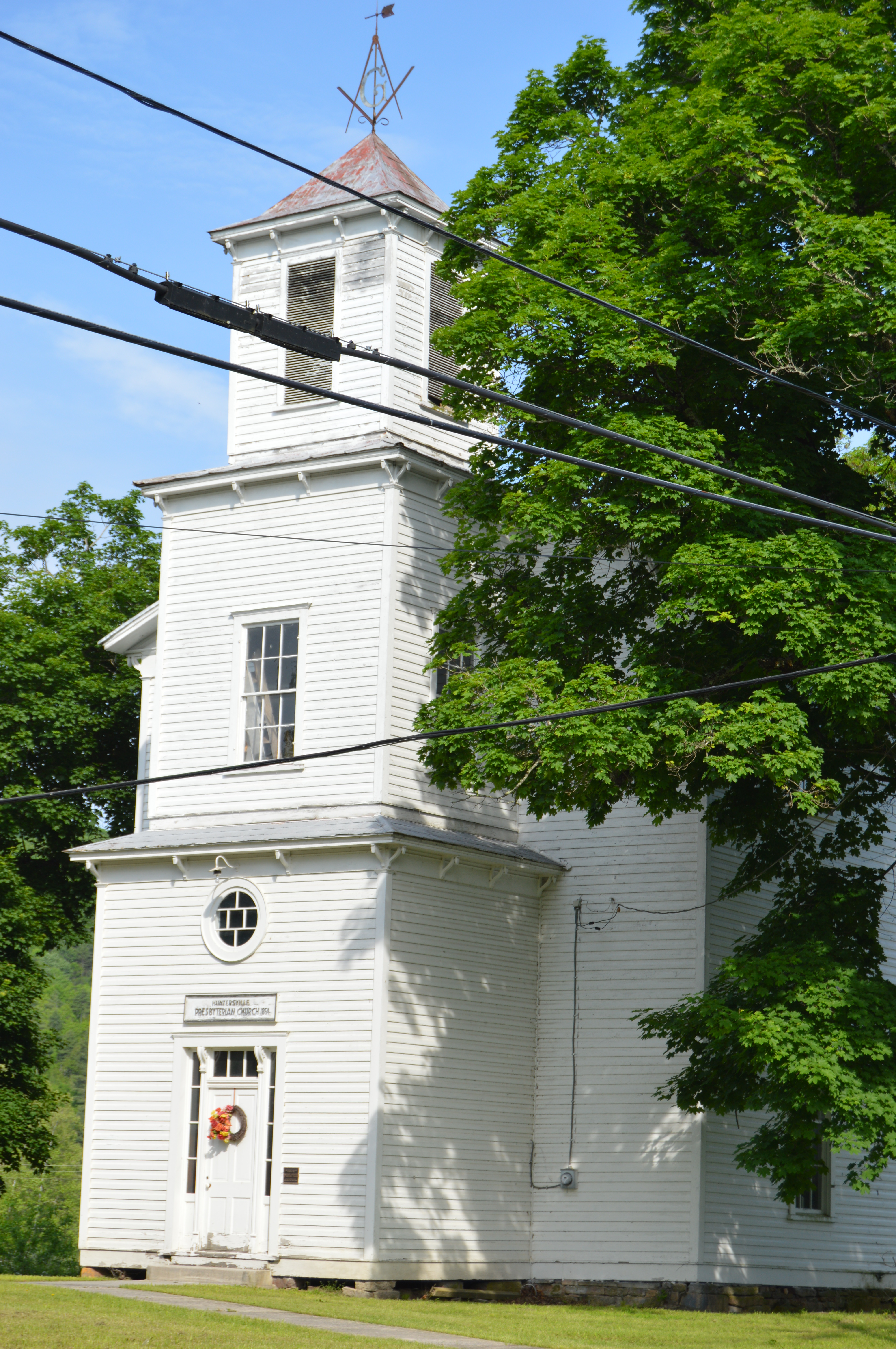 Front of the Huntersville Presbyterian Church, located at the intersection of West Virginia Route 39 and Beaver Creek Road at Huntersville in Pocahontas County, West Virginia, United States. Built in 1854 and expanded in 1896 to add Masonic lodge space, it is listed on the National Register of Historic Places.